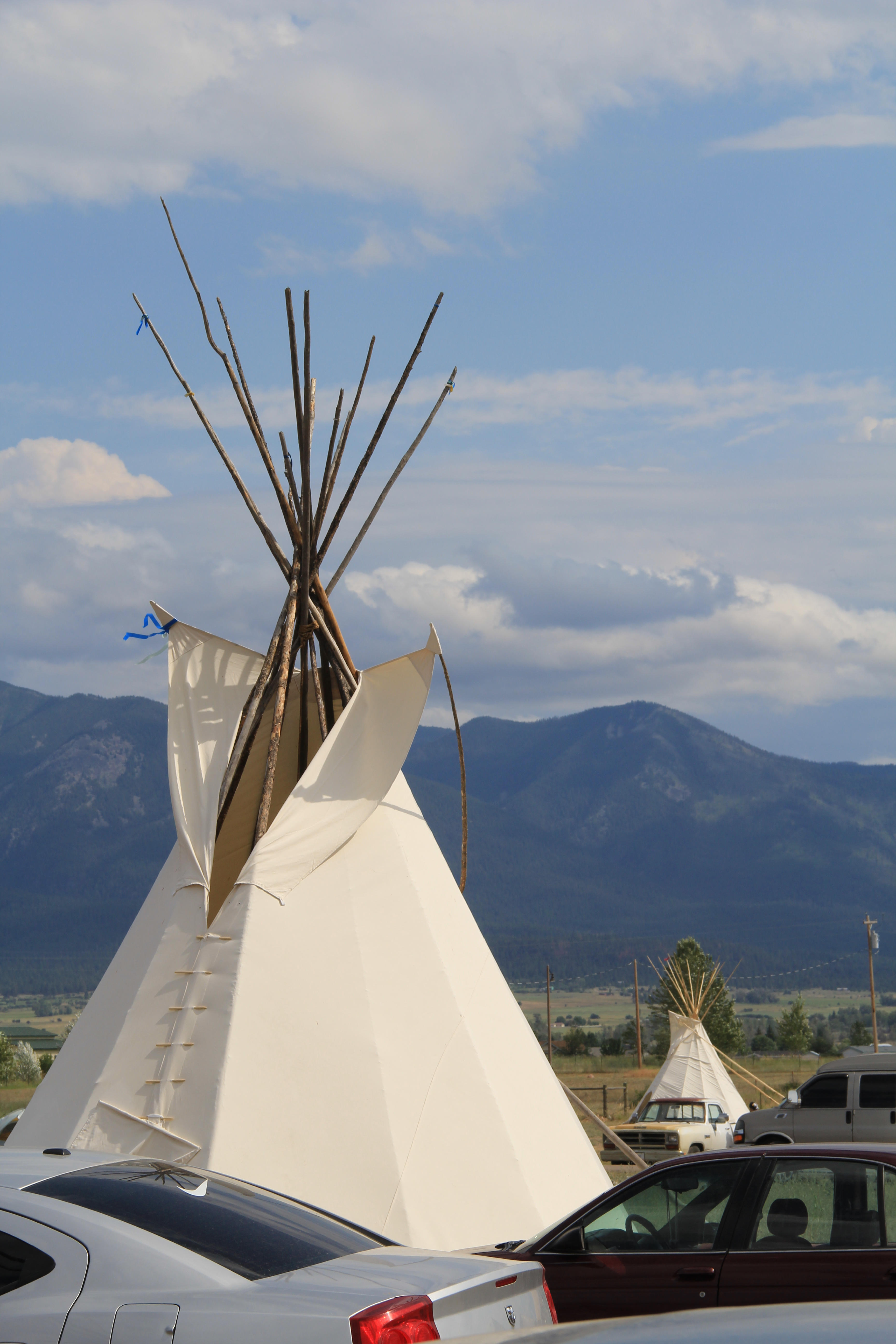 Tipi and Mission Mountains. Arlee Esyapqeni - Arlee Celebration Pow Wow 2015, in Arlee, Montana. July 6, 2015.